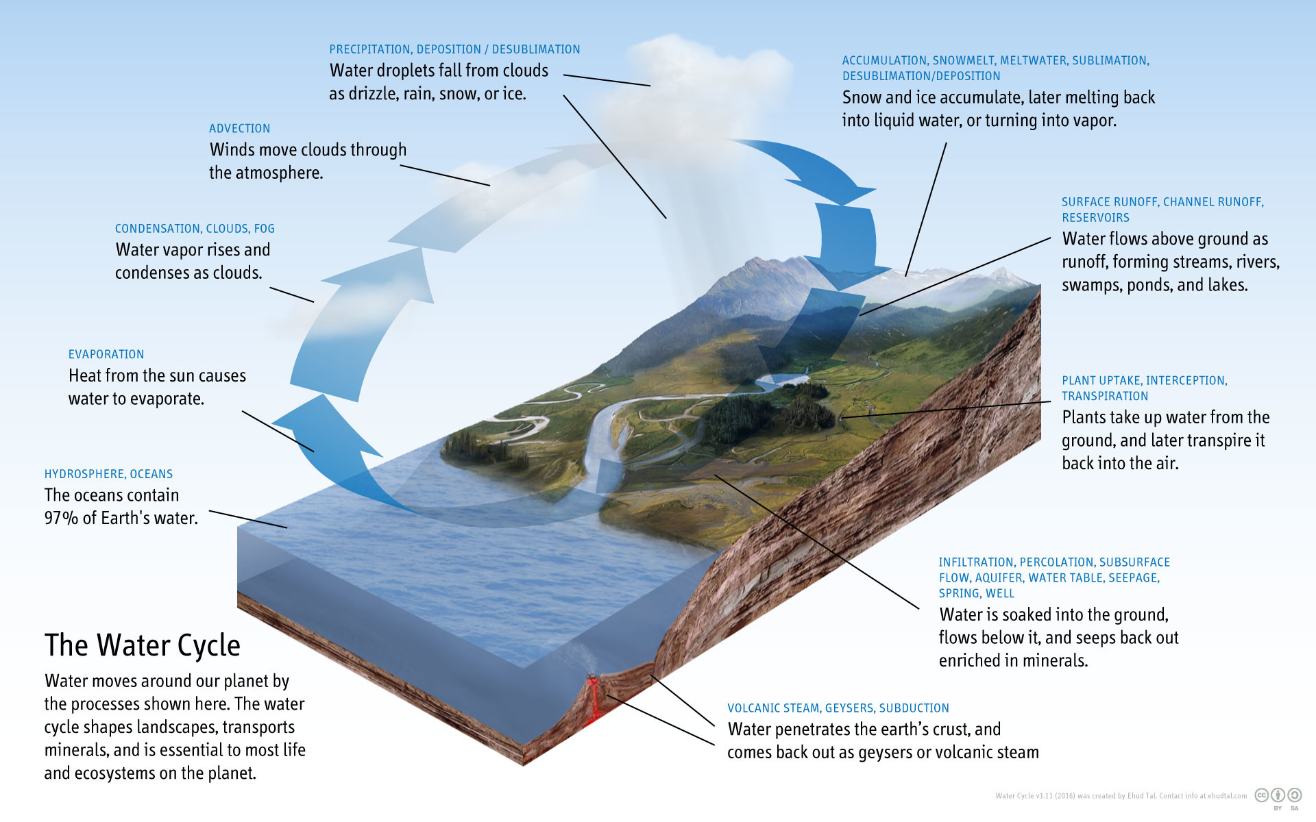 Diagram of the Water Cycle, showing how water is stored and transported across the planet.